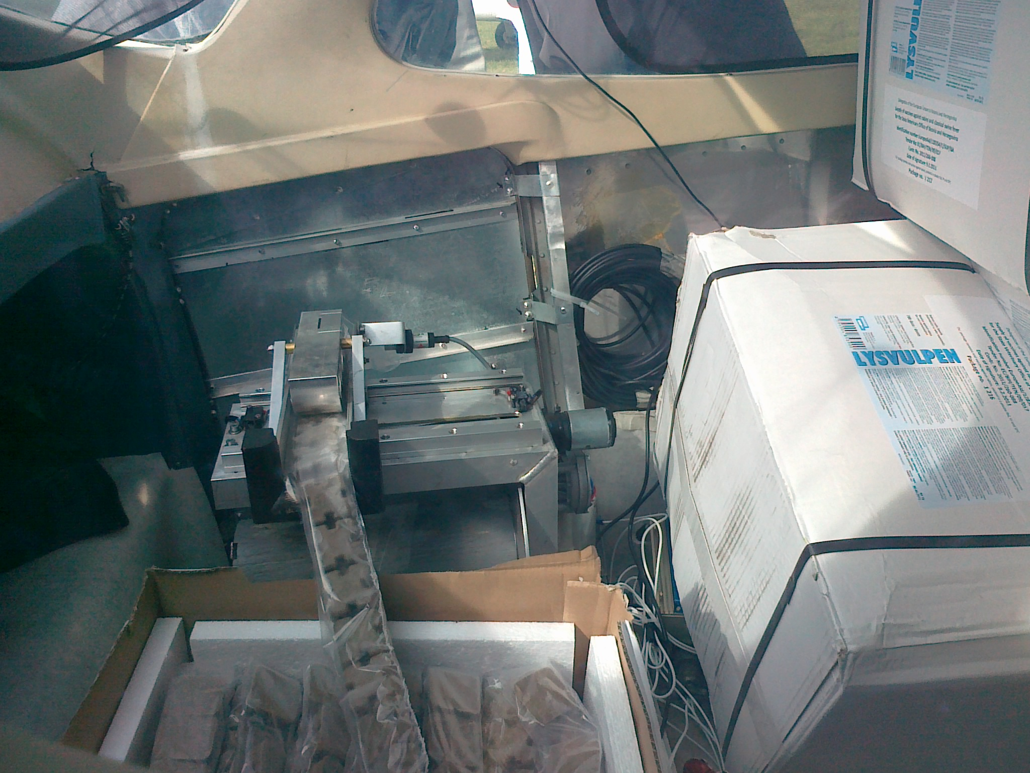 Baits for oral vaccination of foxes ready for throw in Bosnia and Herzegovina